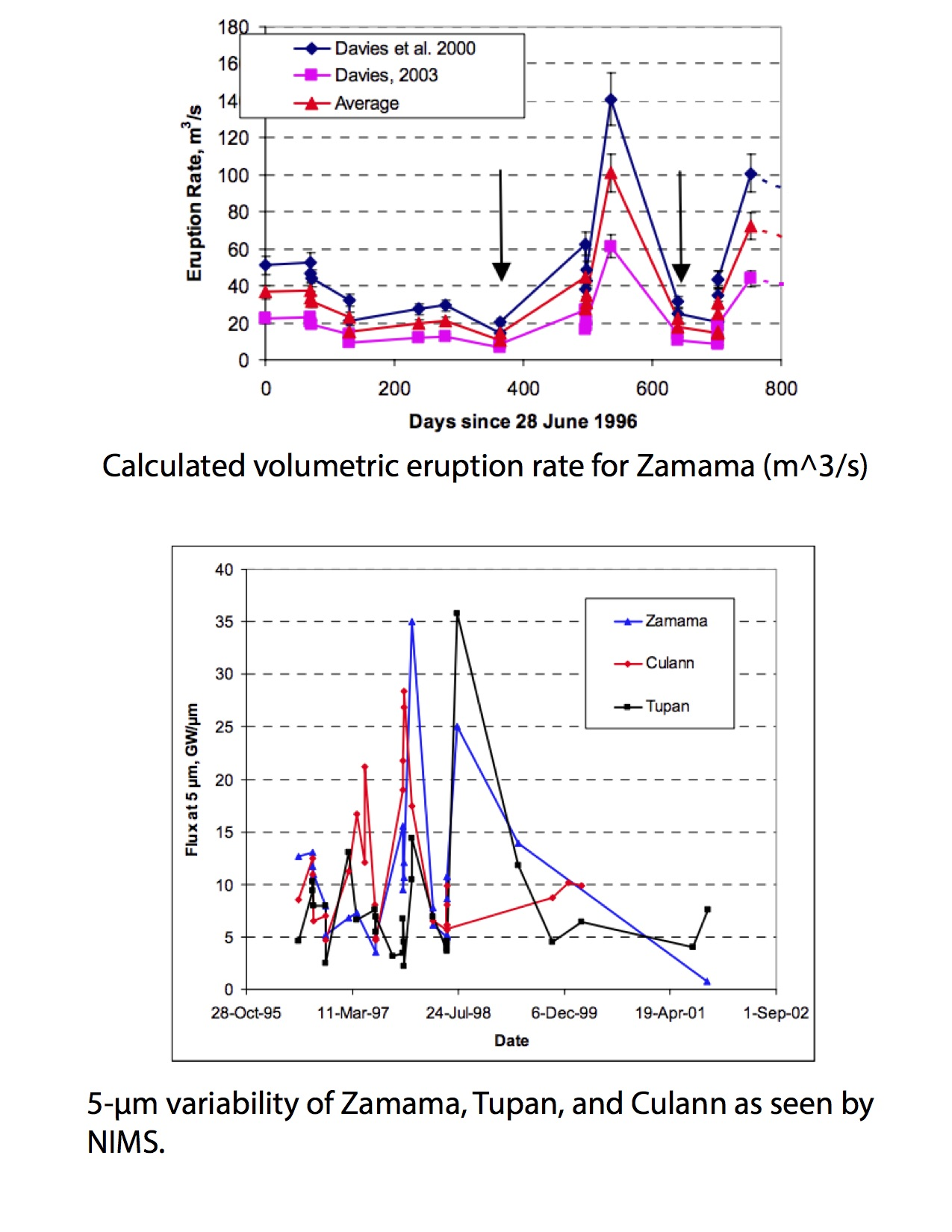 Thermal emission variability of Zamama, eruption rate and power output flux of Zamama